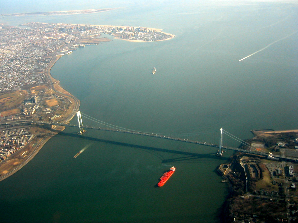 Verrazano Narrows Bridge and Coney Island, New York